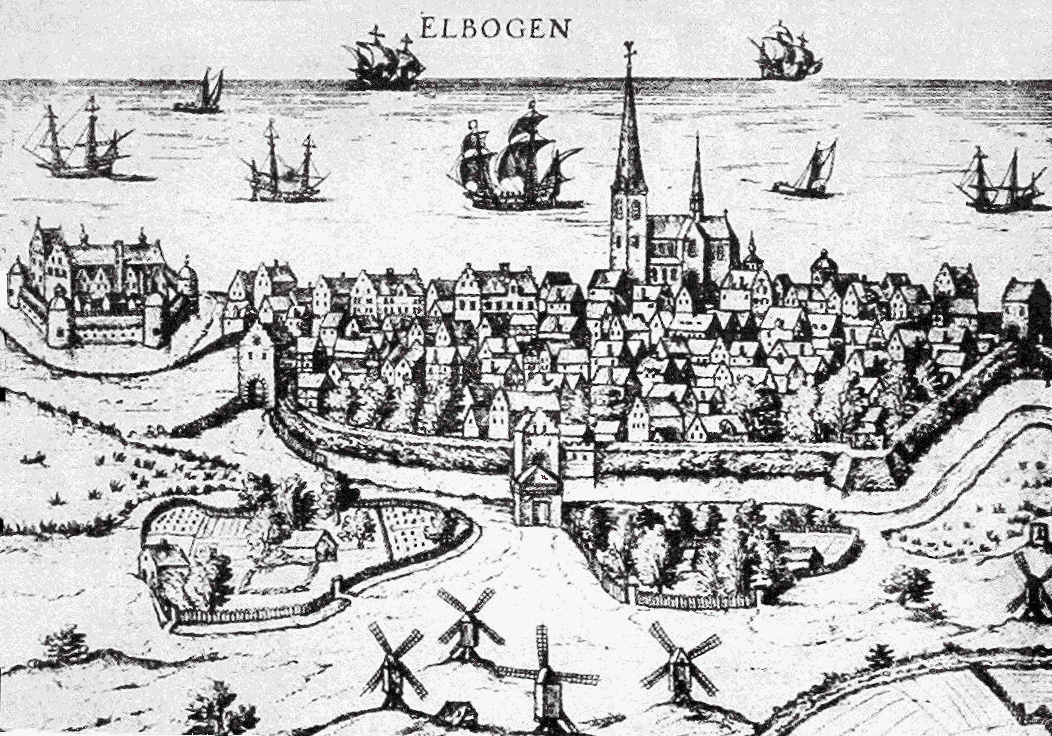 Image of Malmö (Elbogen) in Scania, Southern Sweden from a German book (Civitates orbis terrarum, Vol. IV, by G. Braun & F. Hogenberg) .